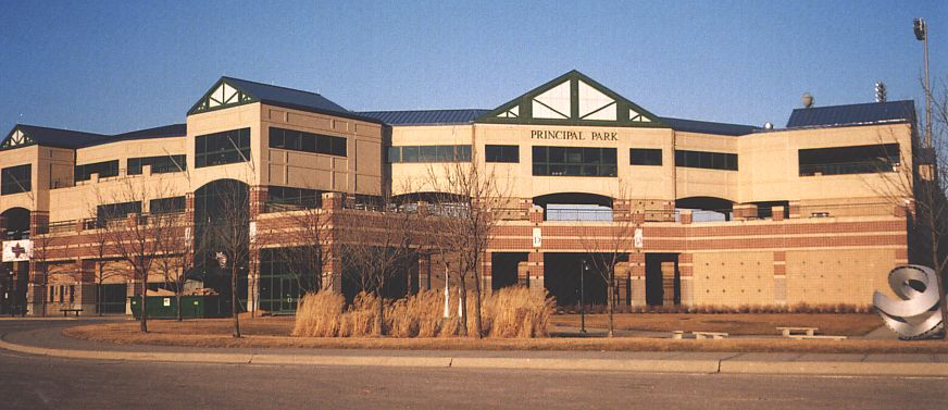 01:37, 20 March 2005 . . Iowahwyman . . 872×377 (73,437 bytes) Exterior of Principal Park in Des Moines, Iowa, taken by User:Iowahwyman in March 2005.